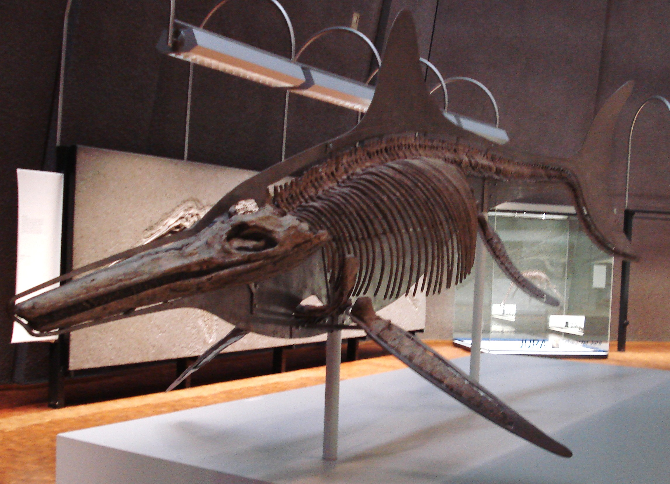 fossil of temnodontosaurus